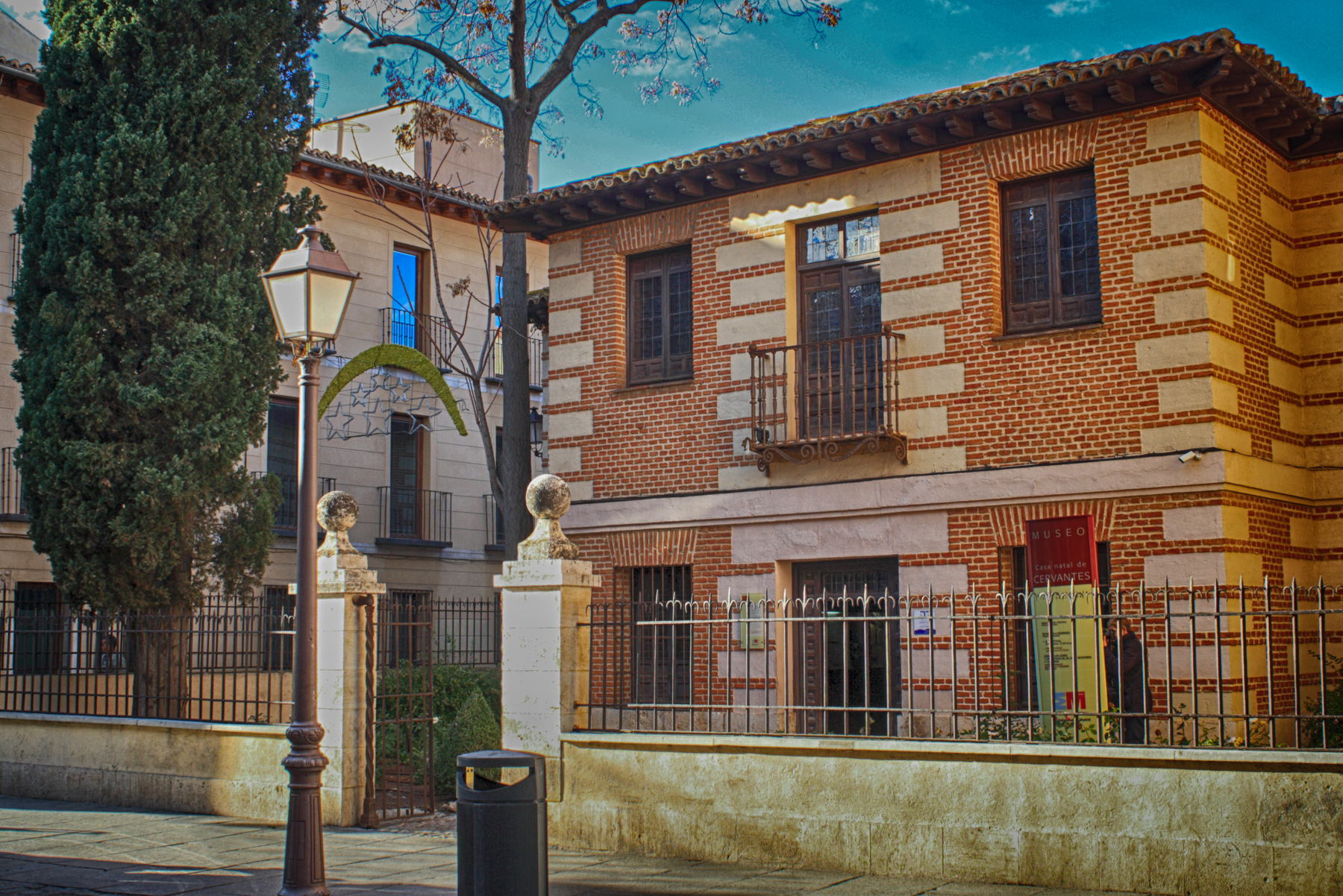 Casa de Cervantes Calle Mayor Alcalá de Henares Comunidad de Madrid España. Note that the actual house was torn down centuries ago. This is a modern building and museum on the same site.